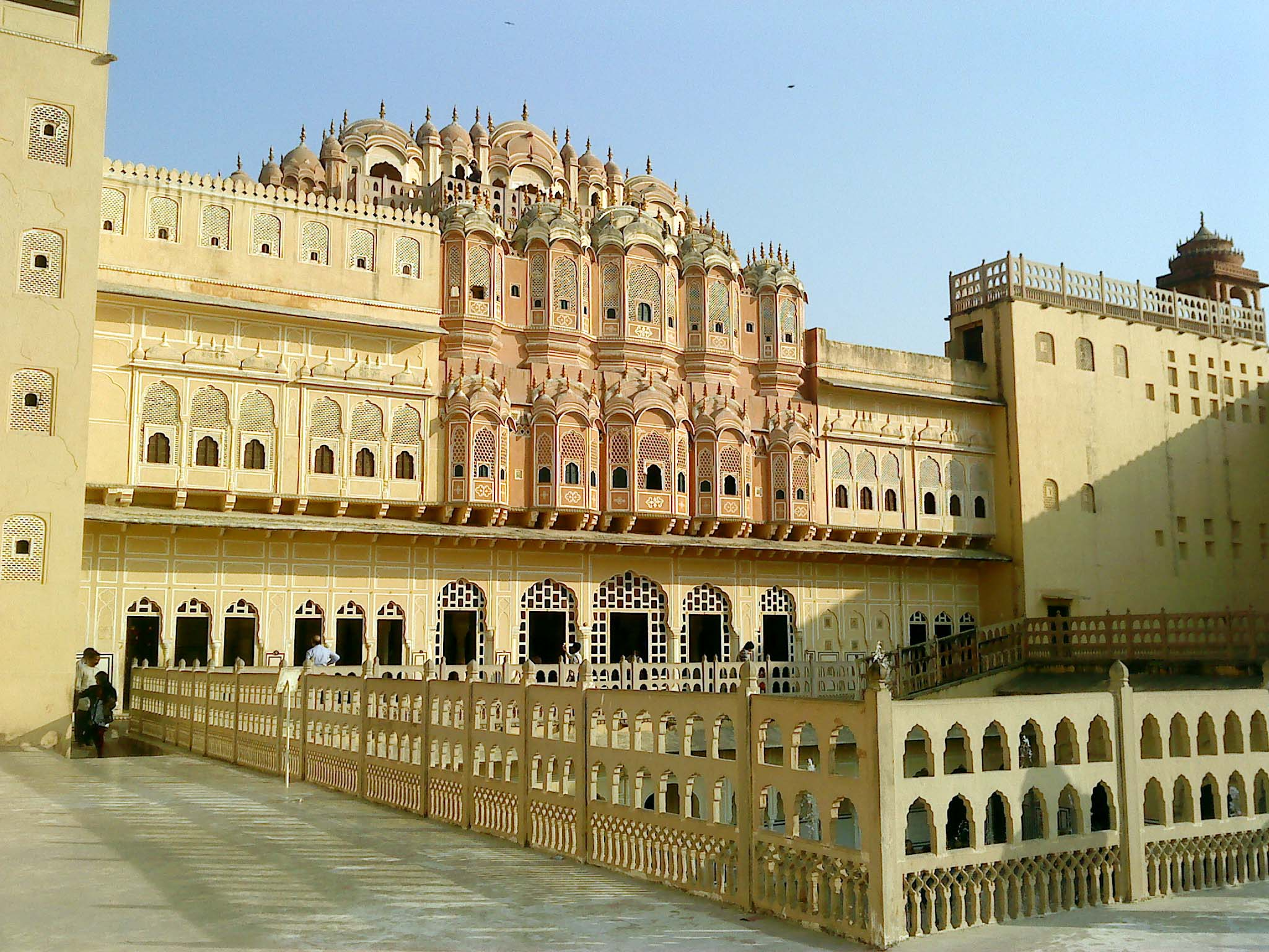 Jaipur Hawa Mahal